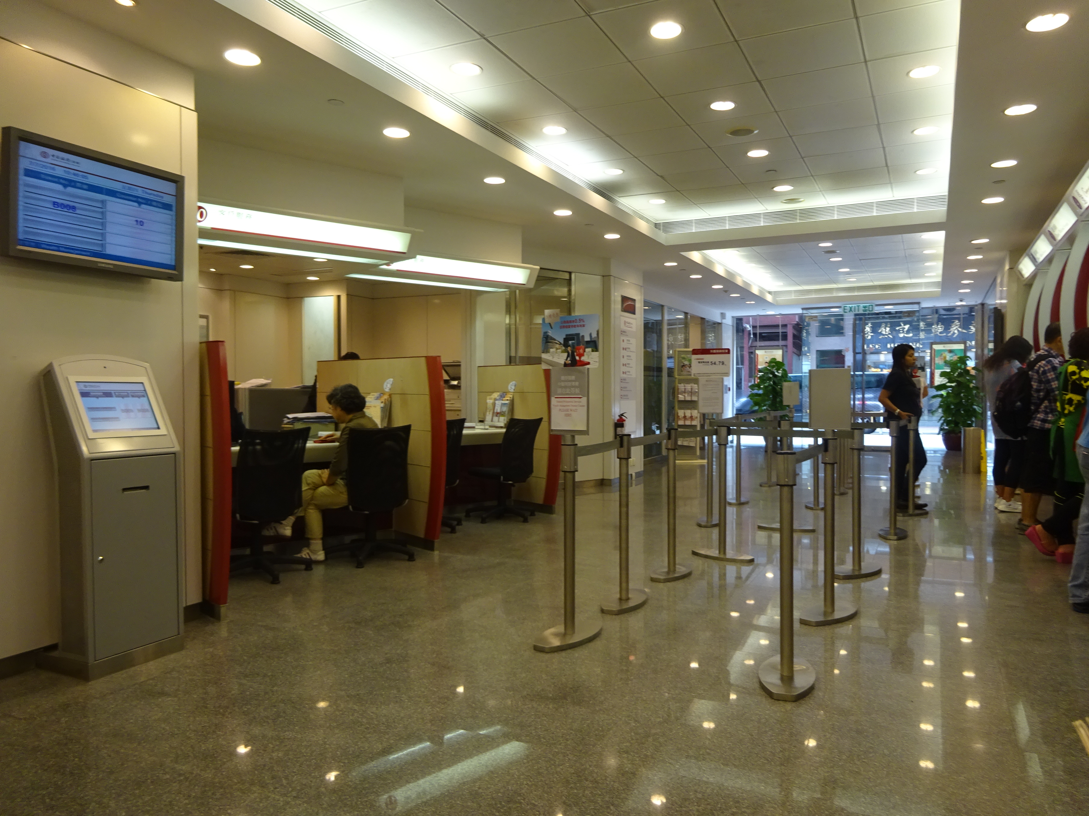 Hong Kong Bank of China Sheung Wan branch interior in July 2016